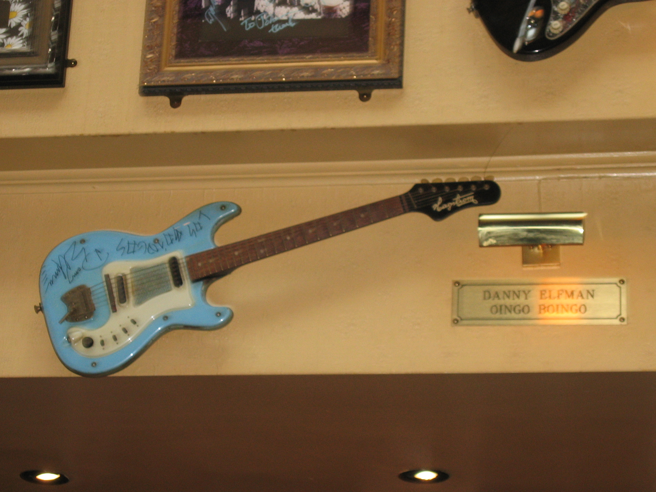 Taken at the Hard Rock Café in Montréal.